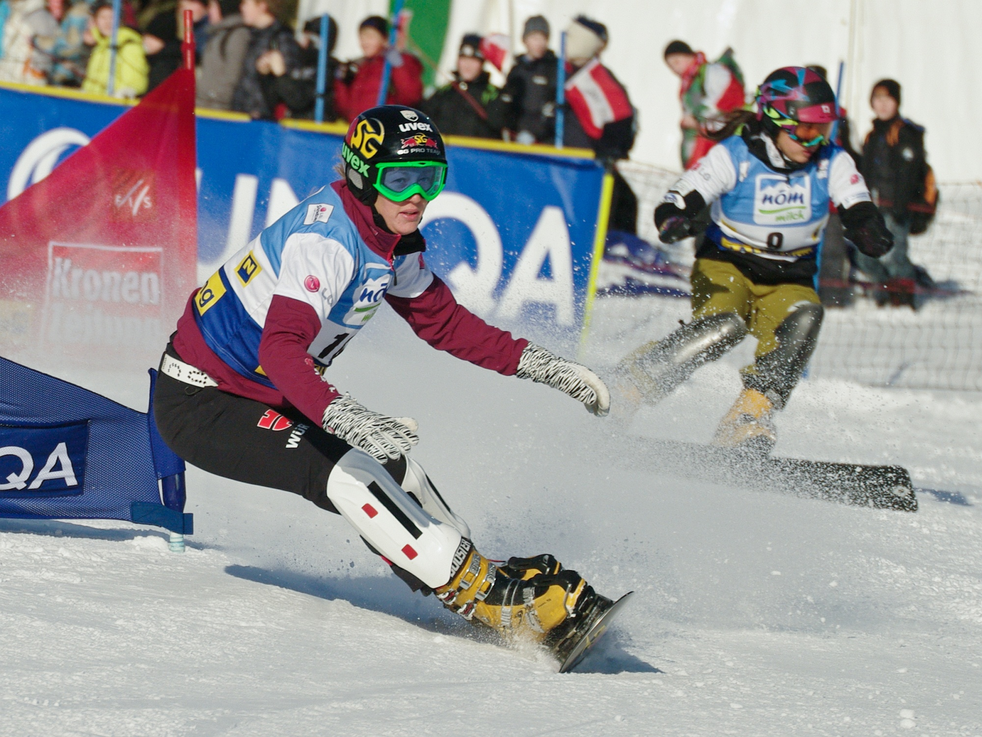 German snowboarder Anke Karstens in the qualification round of the World Cup Parallel Slalom at the Jauerling in Austria on 13 January 2012.